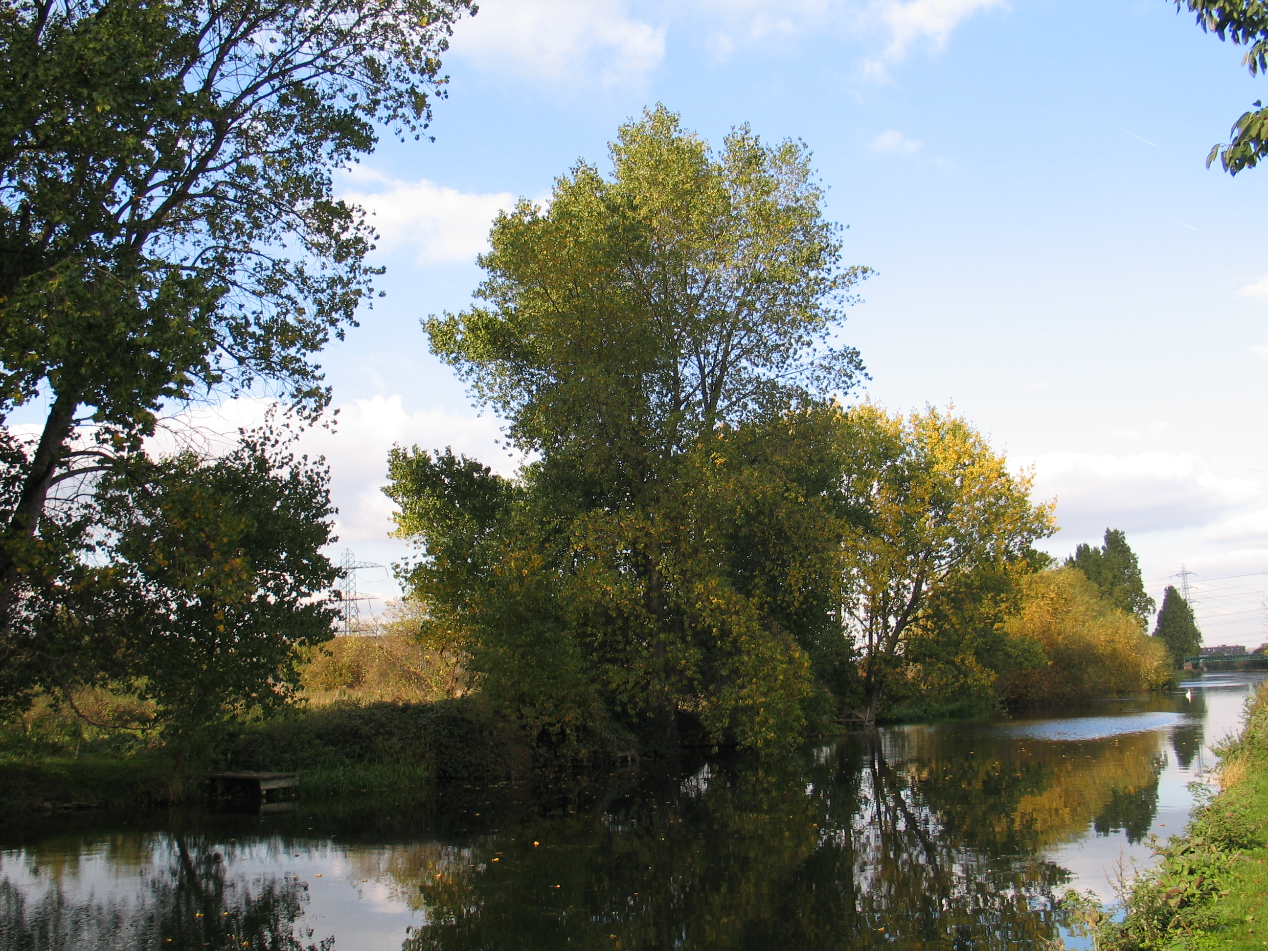 River Lee North of Stonebridge Lock